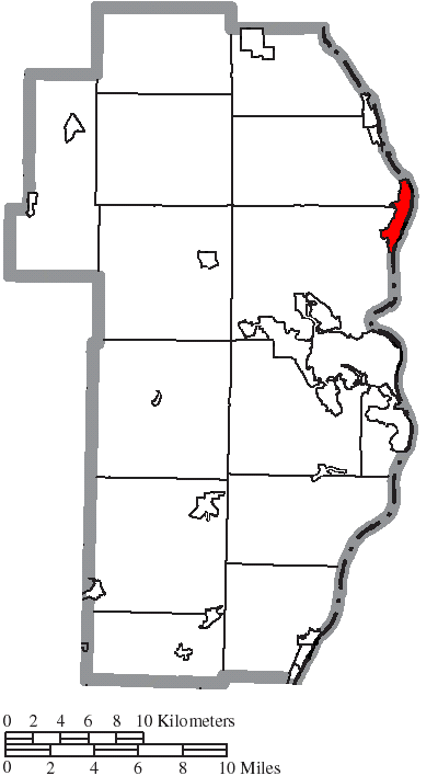 Map of the municipal and township boundaries of Jefferson County, Ohio, United States, as of the 2000 census, with the location of the city of Toronto highlighted. Township borders are shown only in unincorporated areas in order to differentiate incorporated and unincorporated areas more clearly.